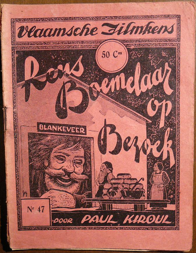 Cover from Vlaams Filmpje 47 from 1931, the author Paul Kiroul (Edward Peeters) died in 1937.